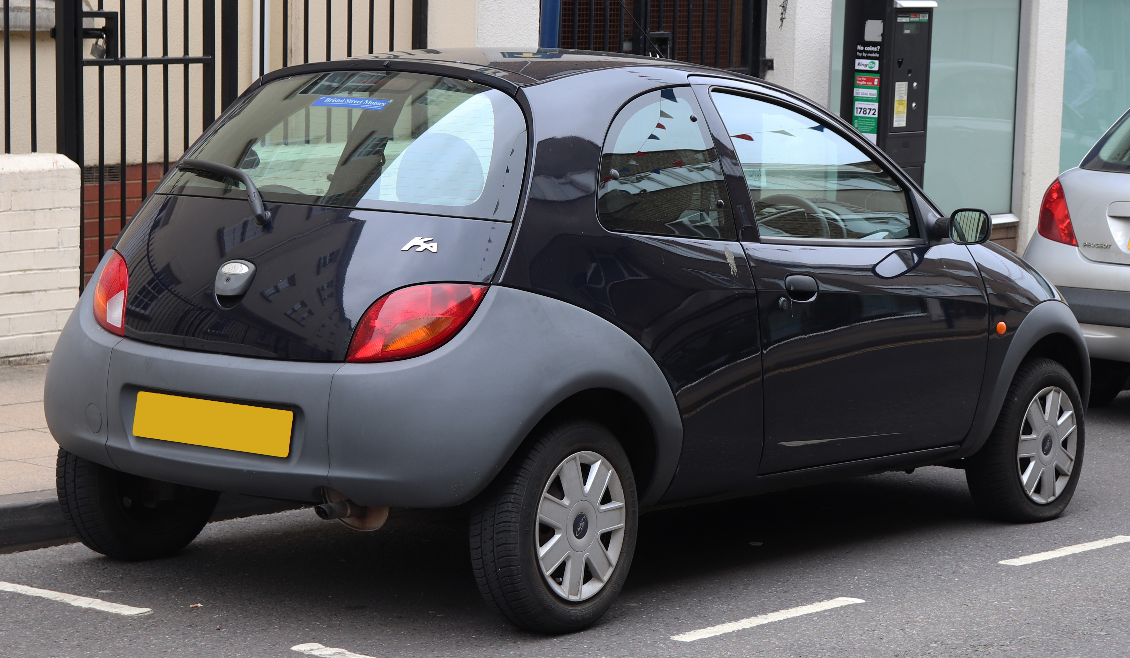 2007 Ford KA Studio 1.3 Rear Taken in Warwick